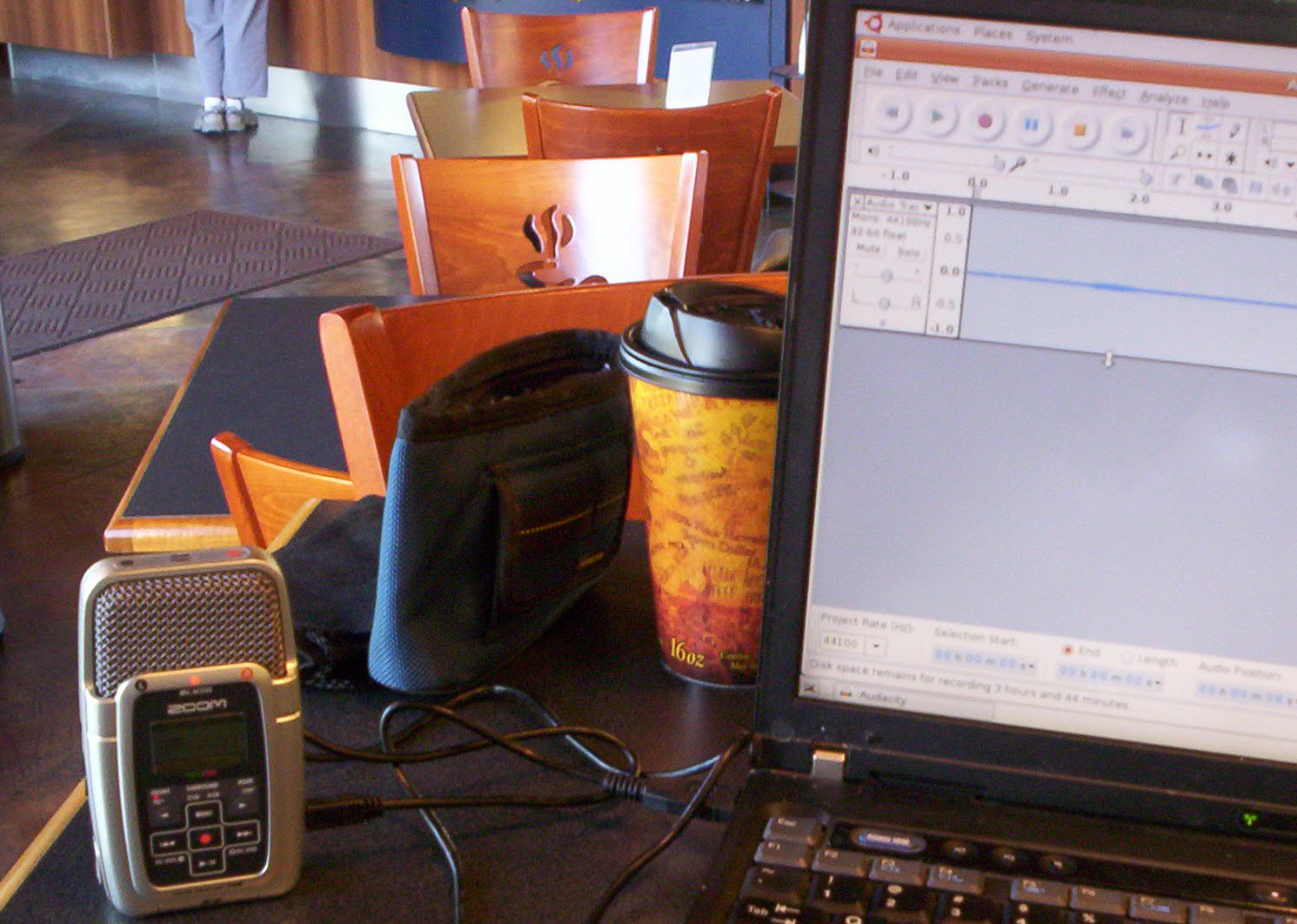 Picture of a Zoom H2 Handy Recorder in use with a ThinkPad computer and Audacity audio editing software. The Zoom is acting like a standard USB audio device in this picture. It does not even require batteries for this.